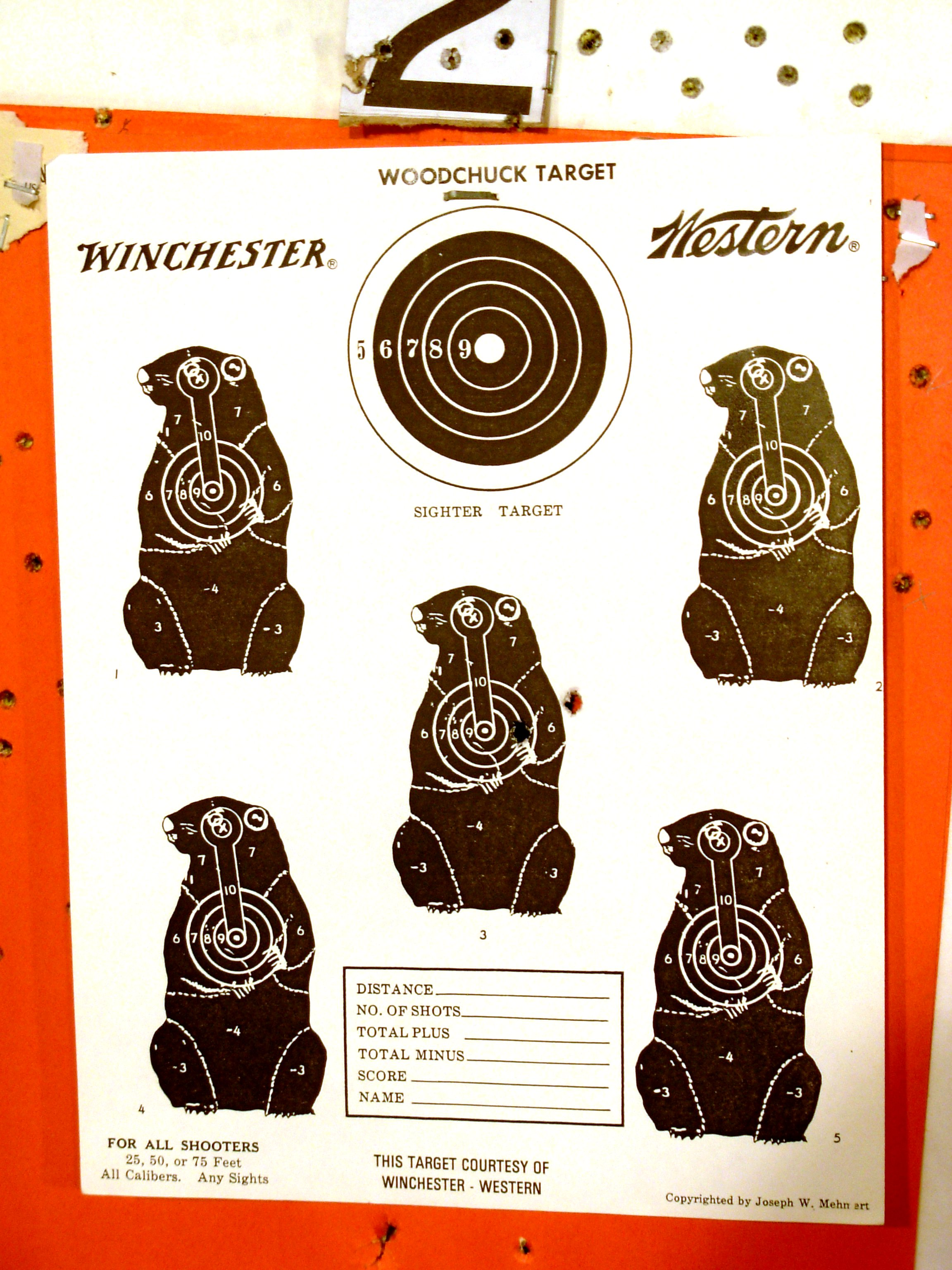 Shooting range near Pittsburgh, PA.